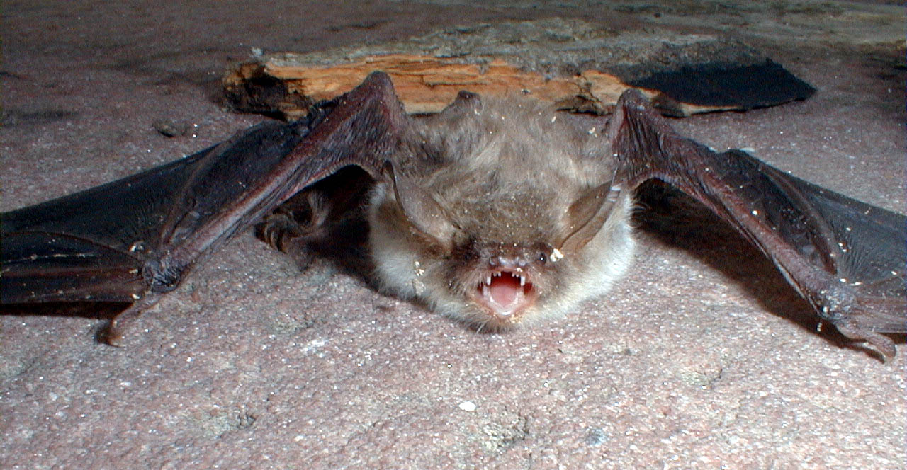 Natterer's bat (Myotis nattereri) in Bensheim (Germany).